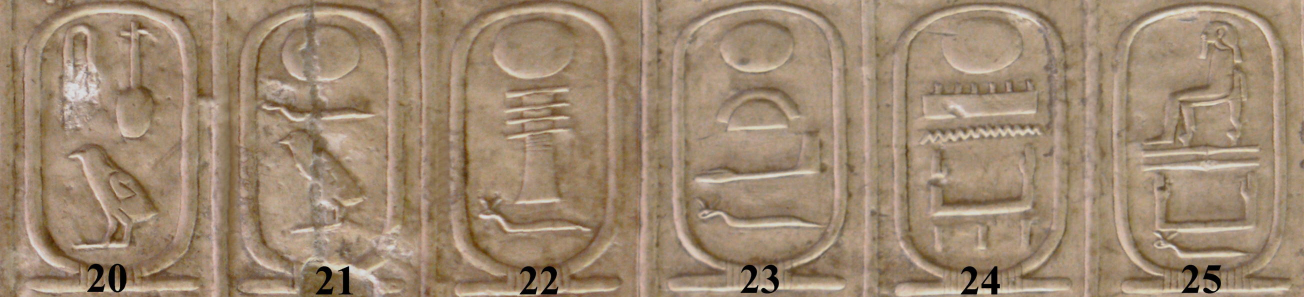 Royal cartouches 20 through 25. The kings' names are (from left to right): Seneferu (Snofru), Khufu (Cheops), Djedefra, Khafra (Chephren), Menkaura (Mykerinos), Shepseskaf